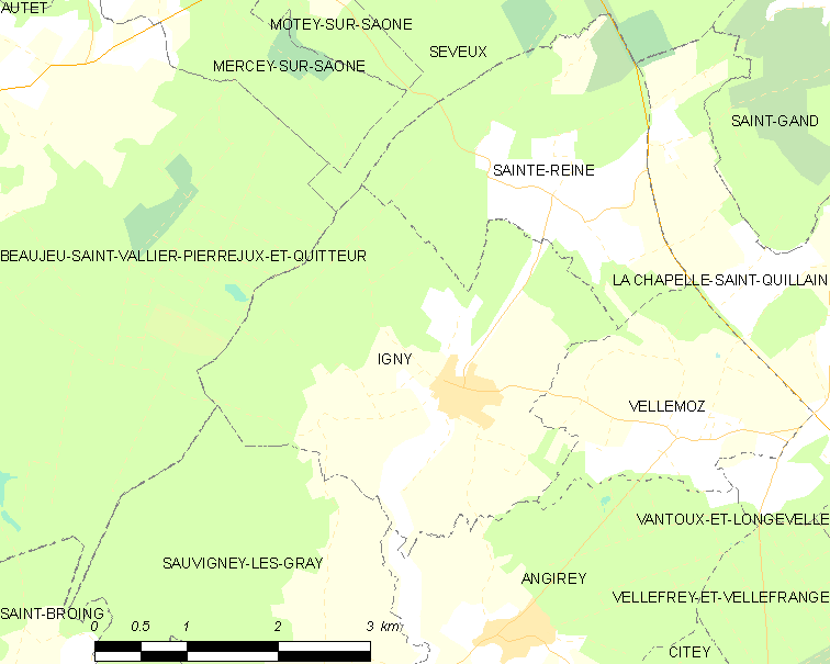 Map of French municipality